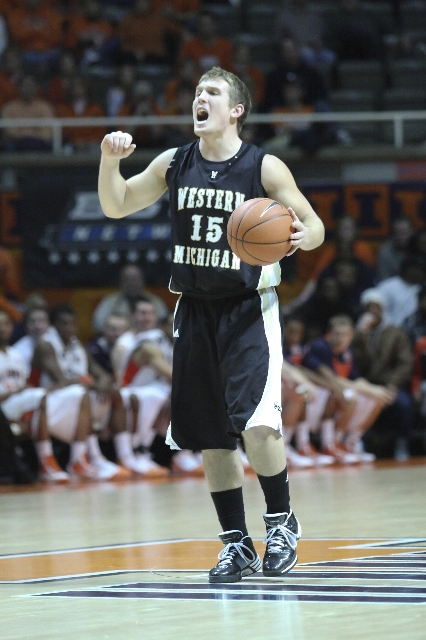 Alex Wolf of Western Michigan University in a game against the University of Illinois on December 13, 2009 in Urbana, IL.